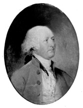 Image of Jacob Read taken from the US Congress Biographical Directory.